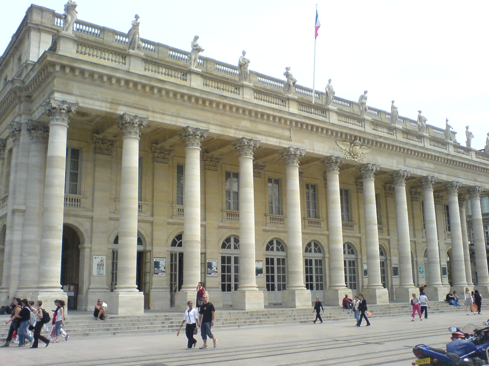 Grand Theatre Bordeaux